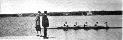 A crew of four Tabor Academy schoolboys rows on Sippican Harbor in 1918.